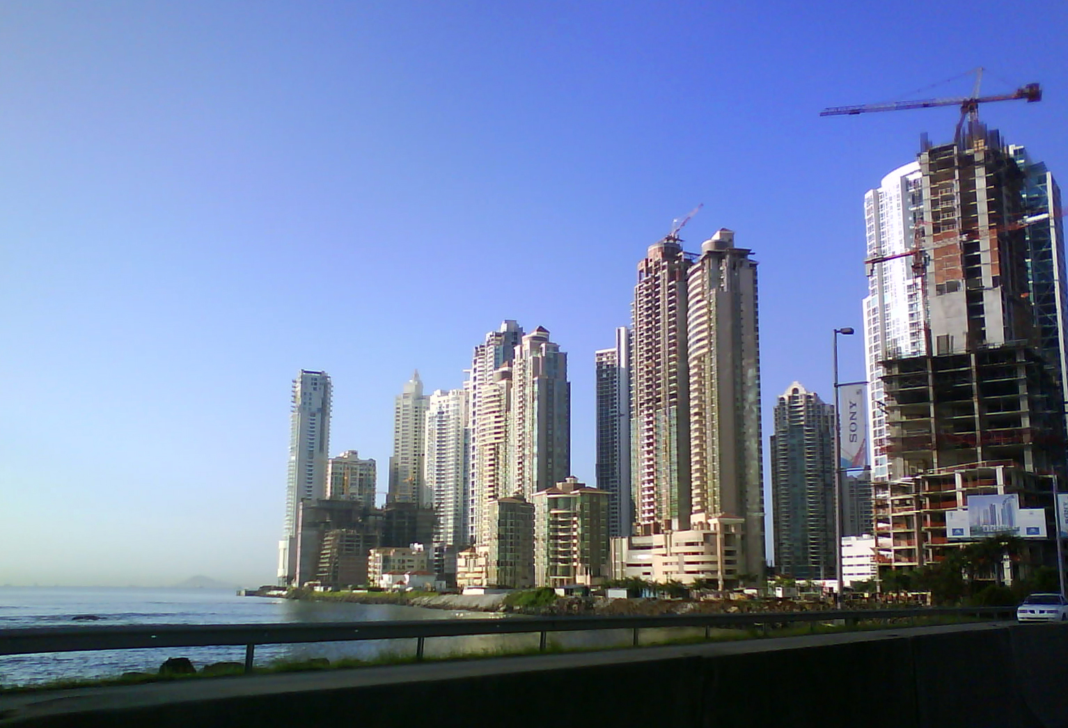 View from the corridor south to Punta Pacífica, in the photo you can see various buildings in construction.